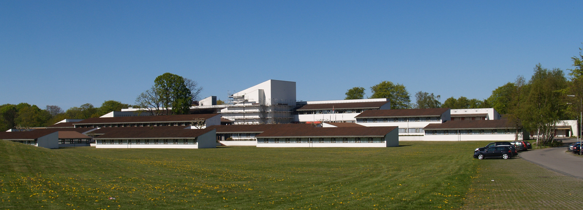 The conference centre "LO school", Helsingør (Helsinore), Denmark. LO (Landsorganisationen i Danmark) is the Danish Confederation of Trade Unions